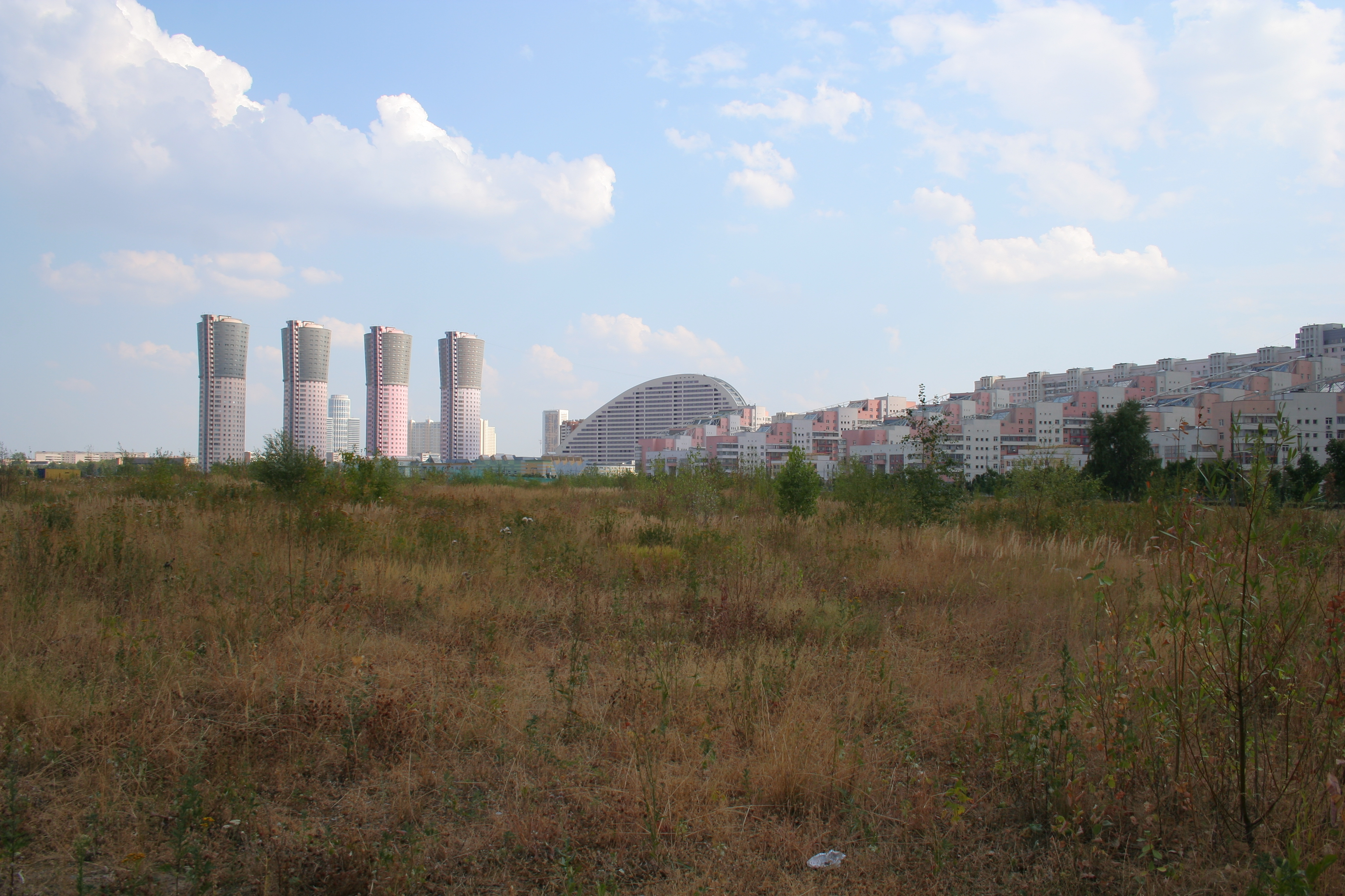 The Khodynka Field in Moscow. Views of the field in 2010.